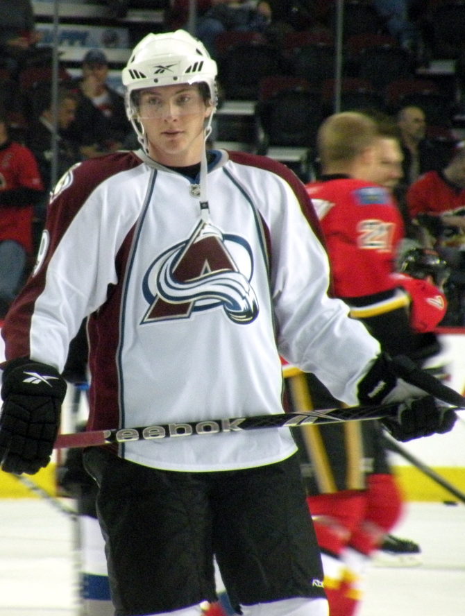 Colorado Avalanche forward Matt Duchene prior to a National Hockey League game against the Calgary Flames, in Calgary.